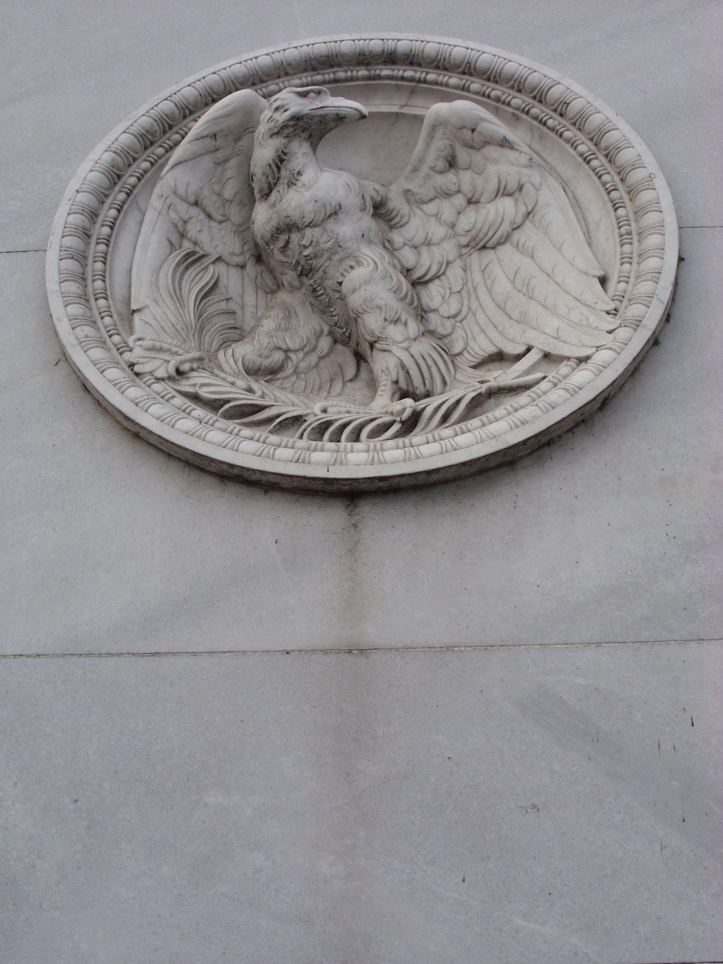 Detail of the bridge